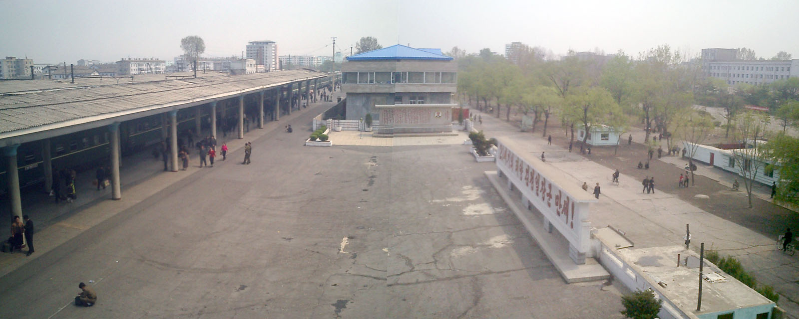 Sinuiju Railway Station, DPRK (south-east direction)